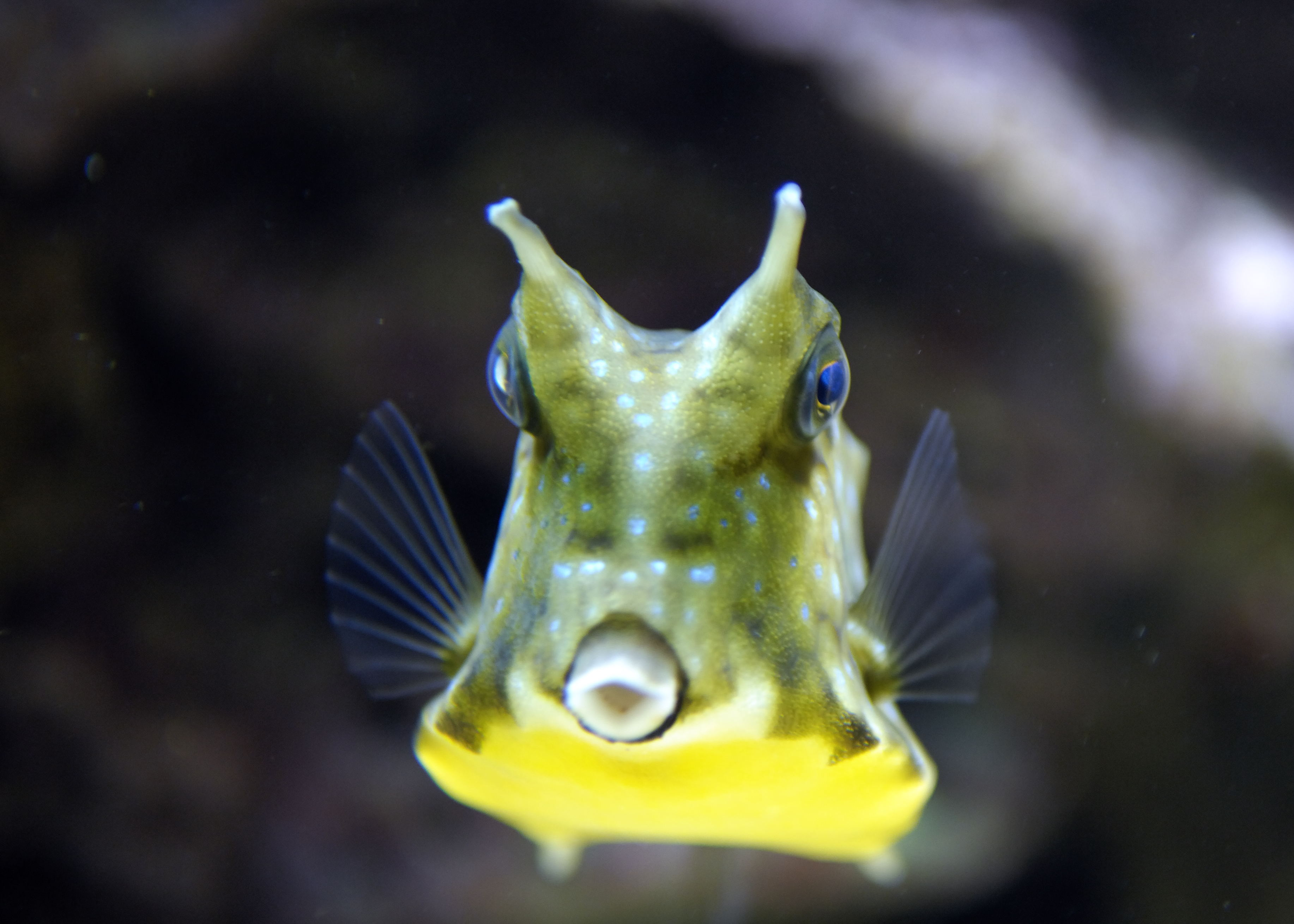 Austria, Vienna, Tiergarten Schönbrunn